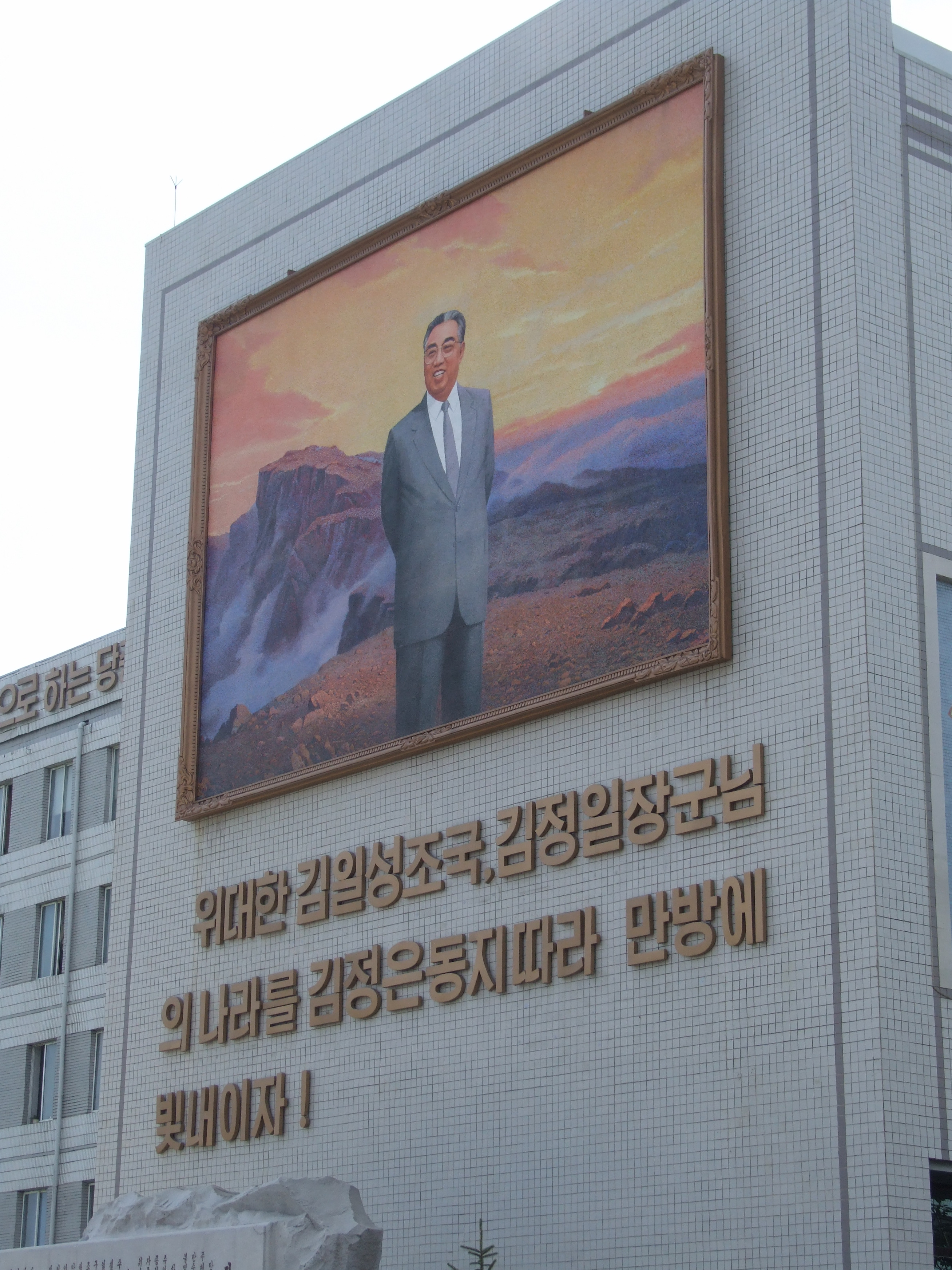 Painting of Kim Il-sung at Mansudae Art Studio in Pyongyang